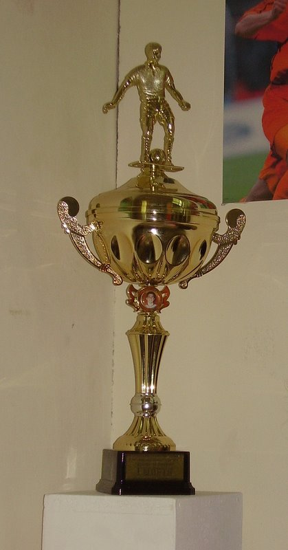 Yulian Manzarov Cup